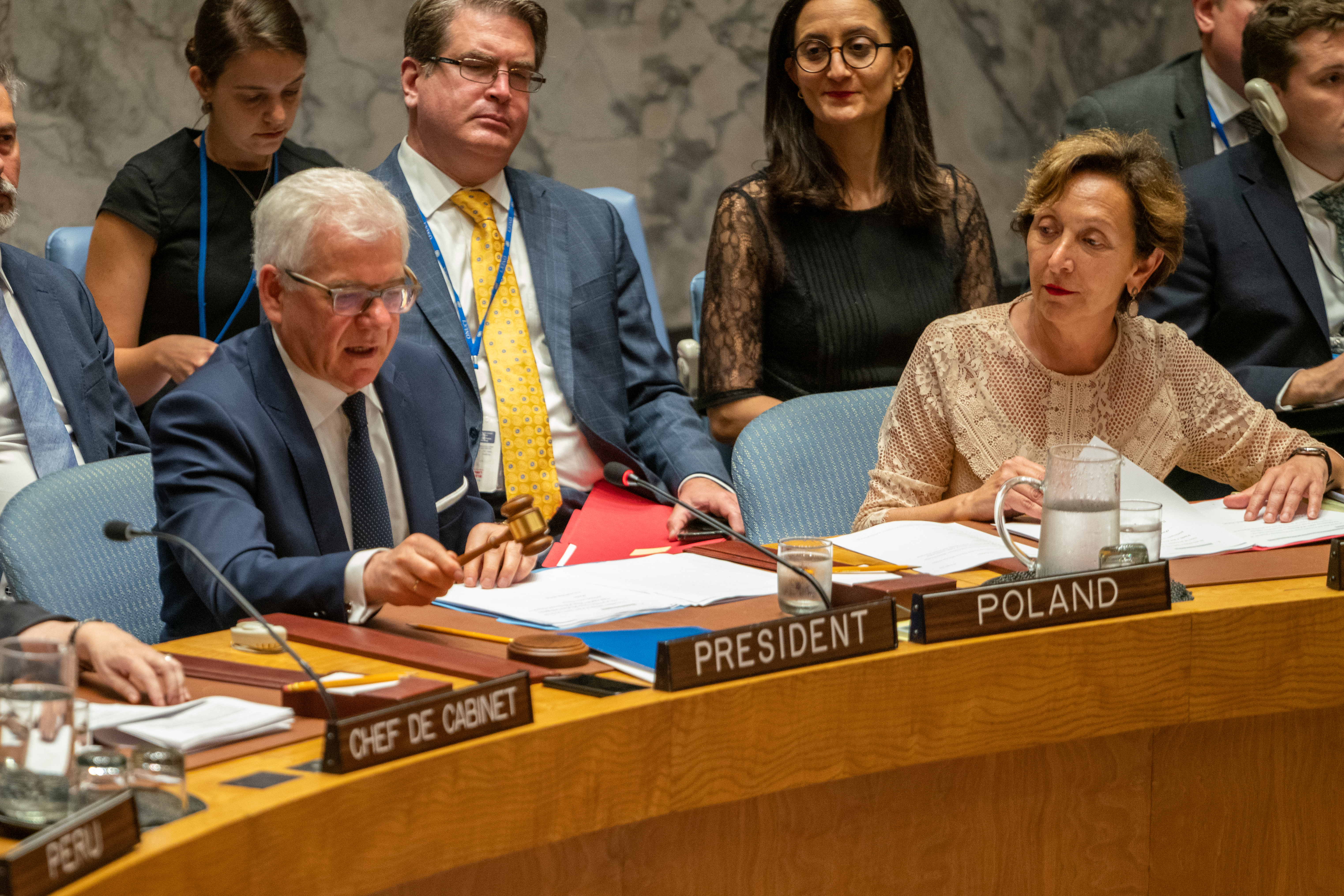 Polish Foreign Minister Jacek Czaputowicz participates in a UN Security Council Session on Middle East Peace and Security, in New York City, New York, August 20, 2019. [State Department photo by Ron Przysucha/ Public Domain]